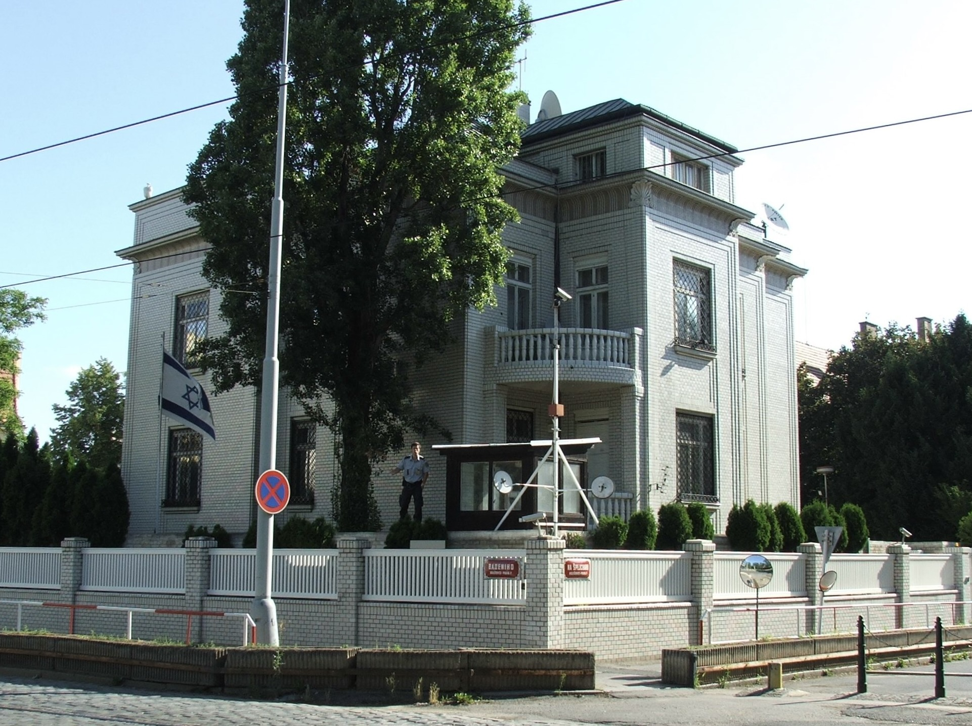 Embassy of Israel in Prague - Letná, Czechia